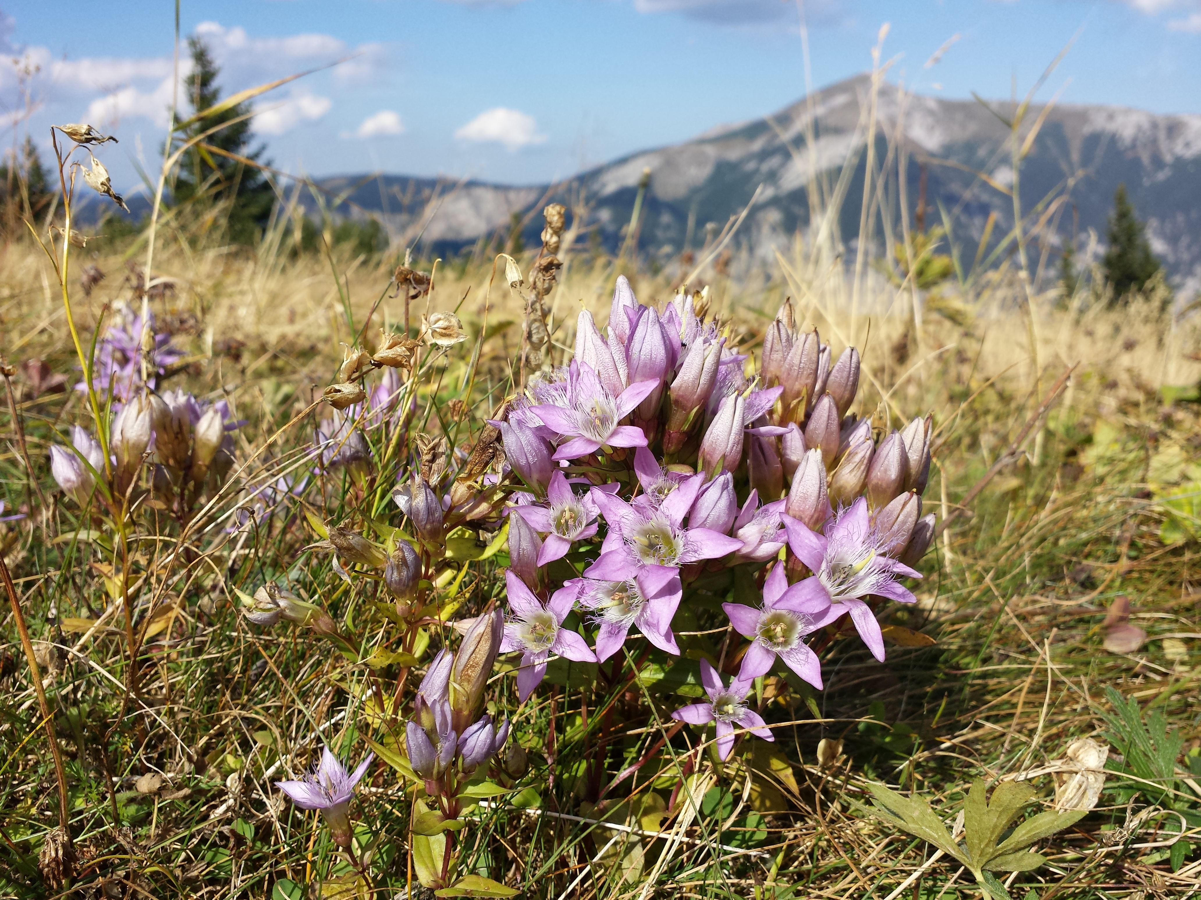 Habitus Taxonym: Gentianella austriaca ss Fischer et al. EfÖLS 2008 ISBN 978-3-85474-187-9 (det. Josef Greimler 2015-09-12) Location: Rax plateau, district Neunkirchen, Lower Austria - ca. 1500 m a.s.l. Habitat: poor grassland